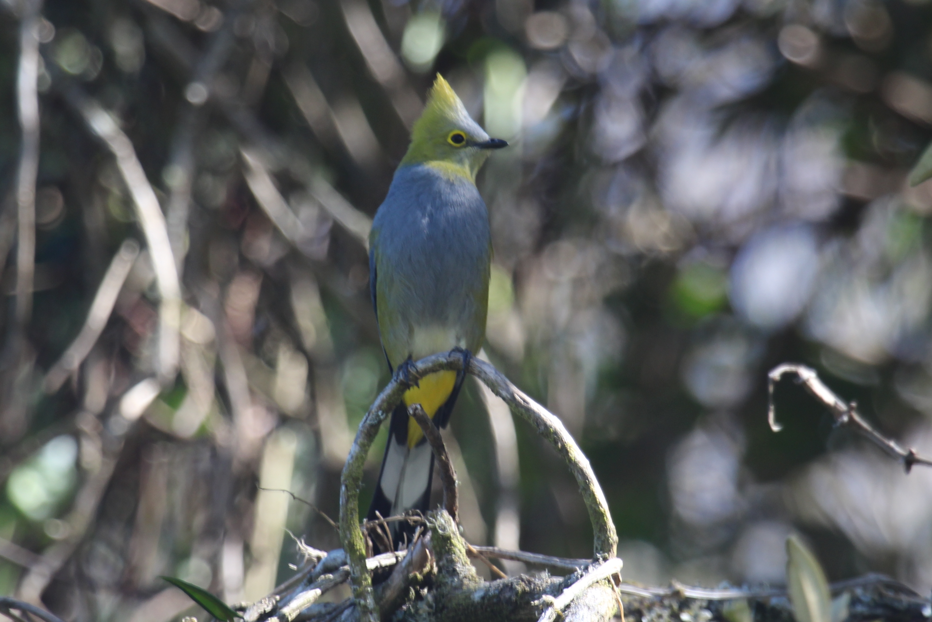 Surprisingly tricky to get a decent shot of this species. They seem to spend a lot of time just inside bushes in half shade.